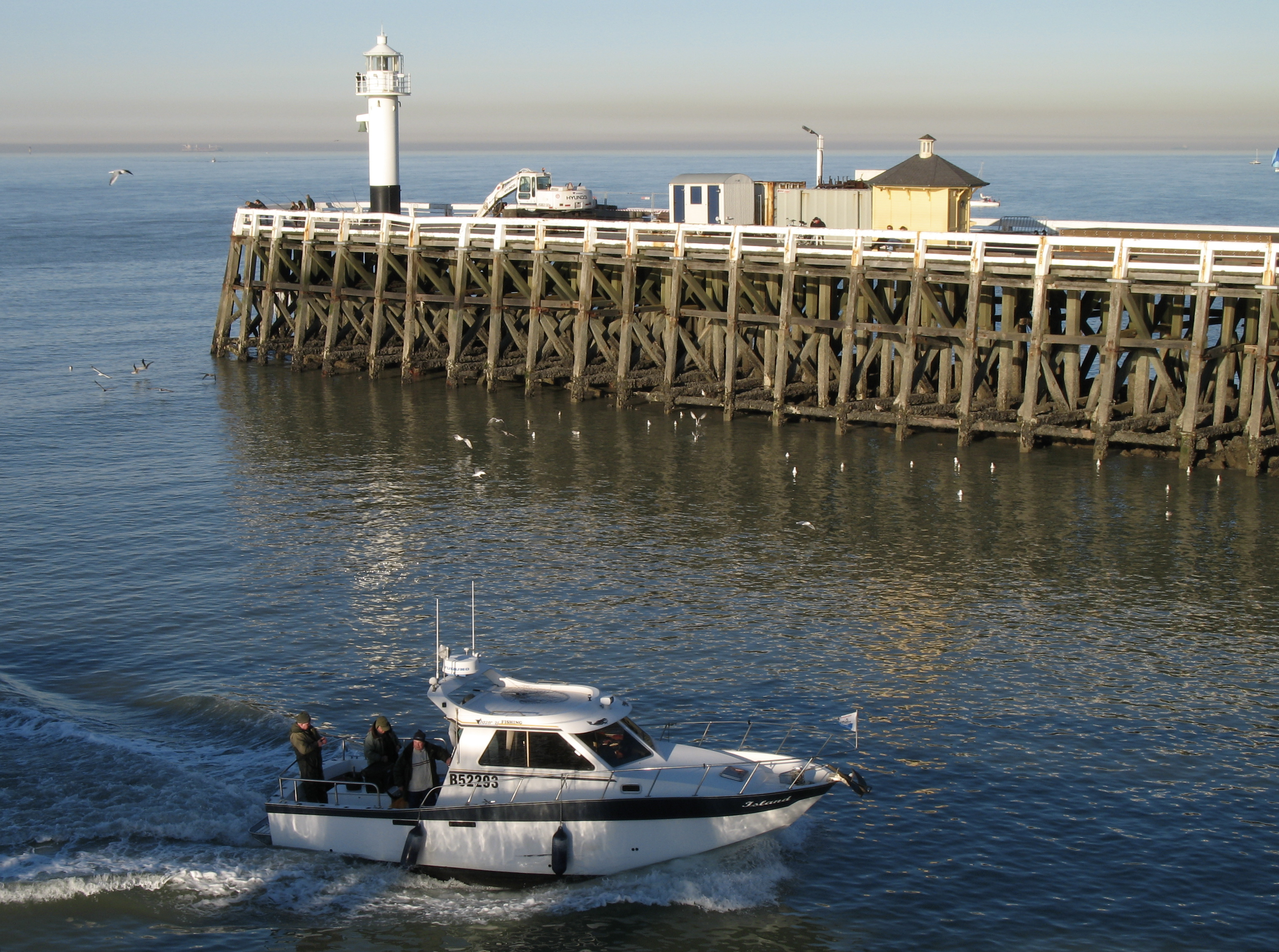 Blankenberge (Belgium): harbour entrance and eastern pier